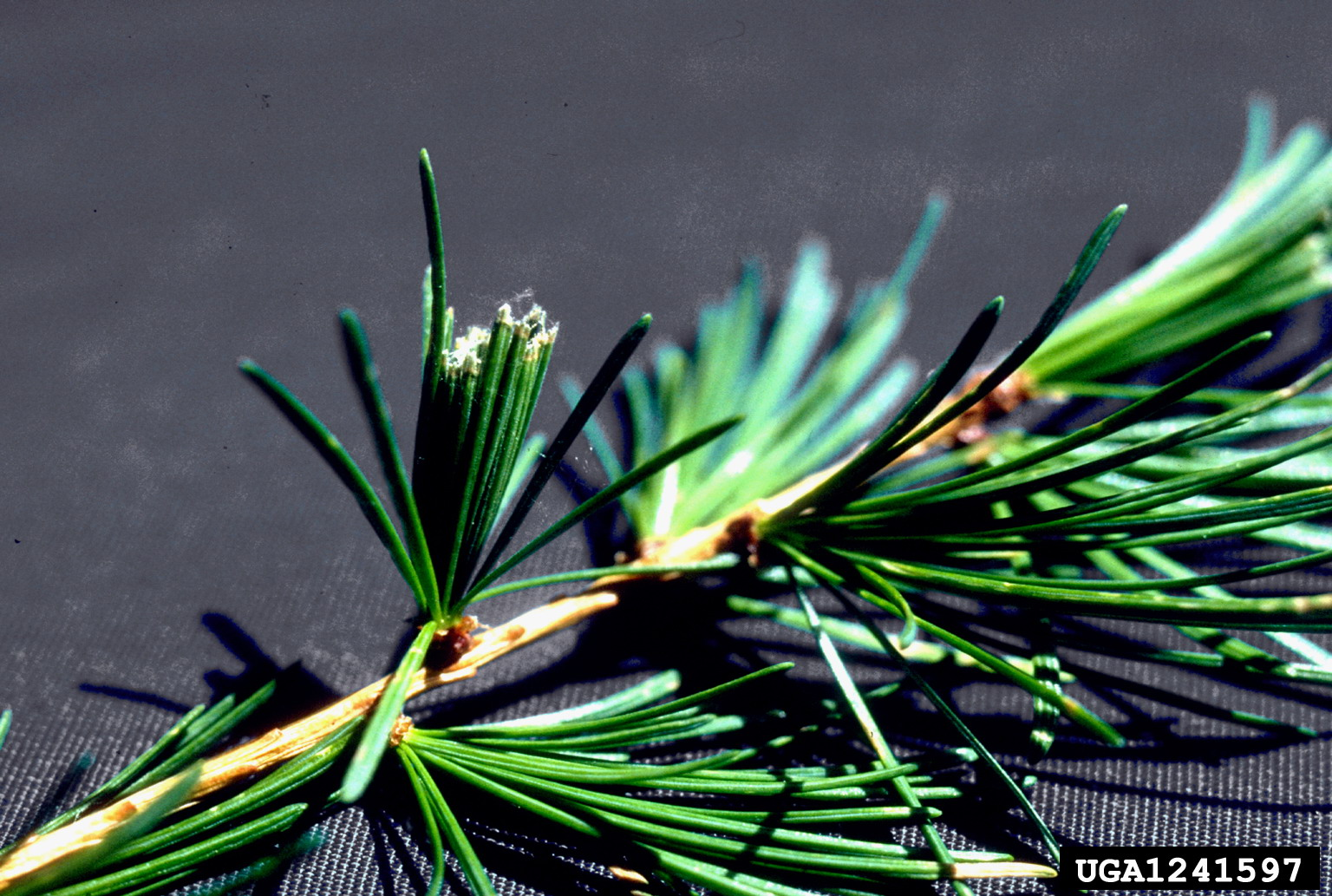 Zeiraphera improbana damage